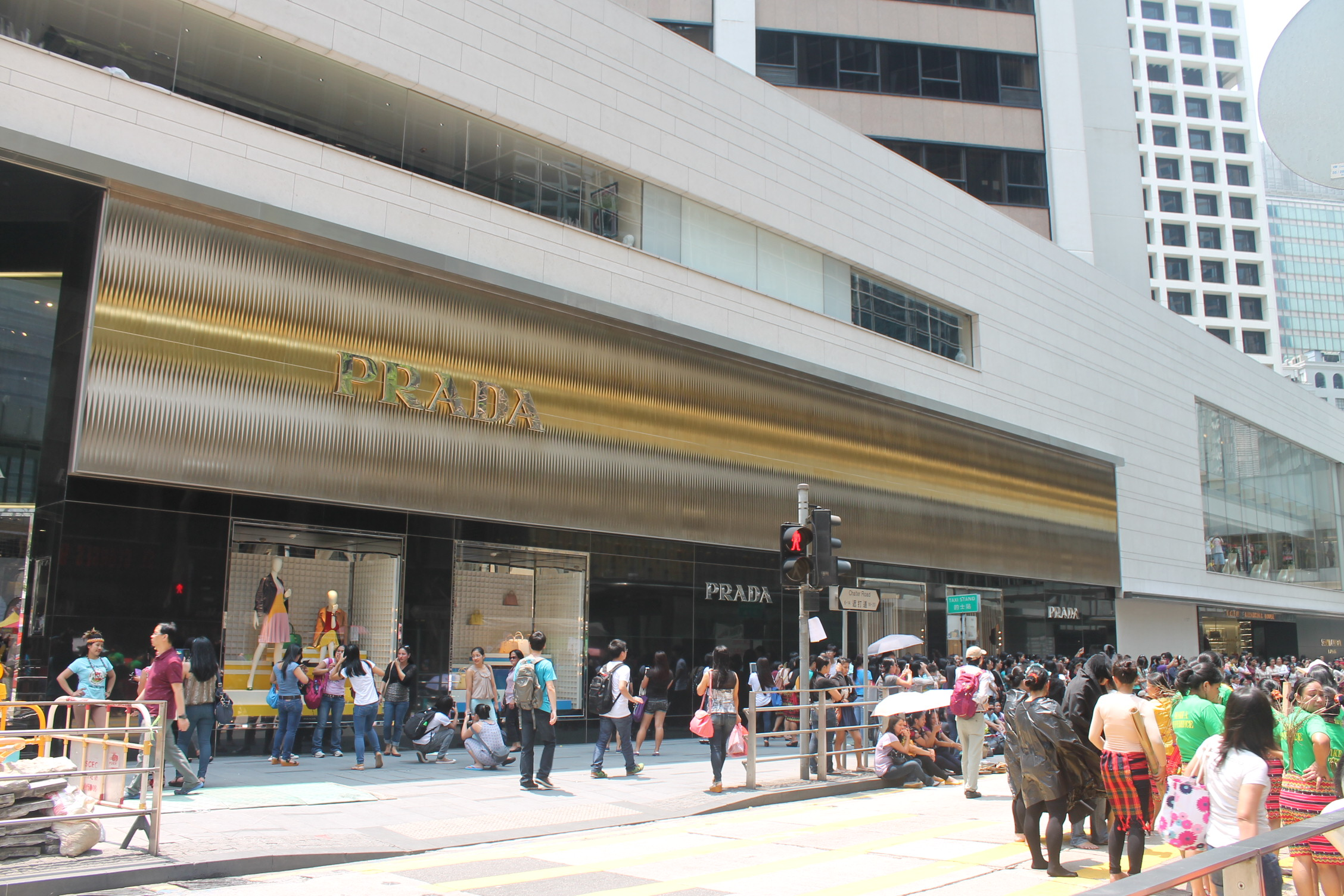 Prada Store in Hong Kong